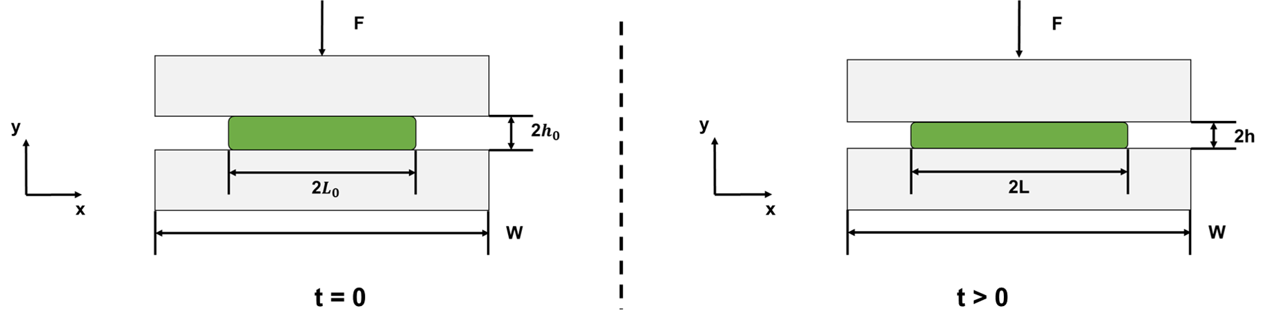 This diagram provides a visual aid, with variables, for squeeze flow between two rectangular plates.